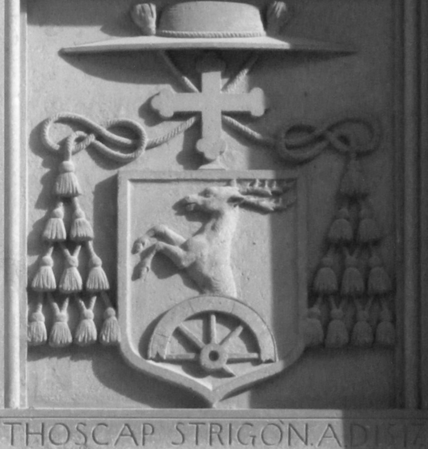 Coat of arms of Támás cardinal Bakócz, archbishop of Esztergom (1497 - 1521). 2nd courtyard, facade of crypt, Bojnice Castle.